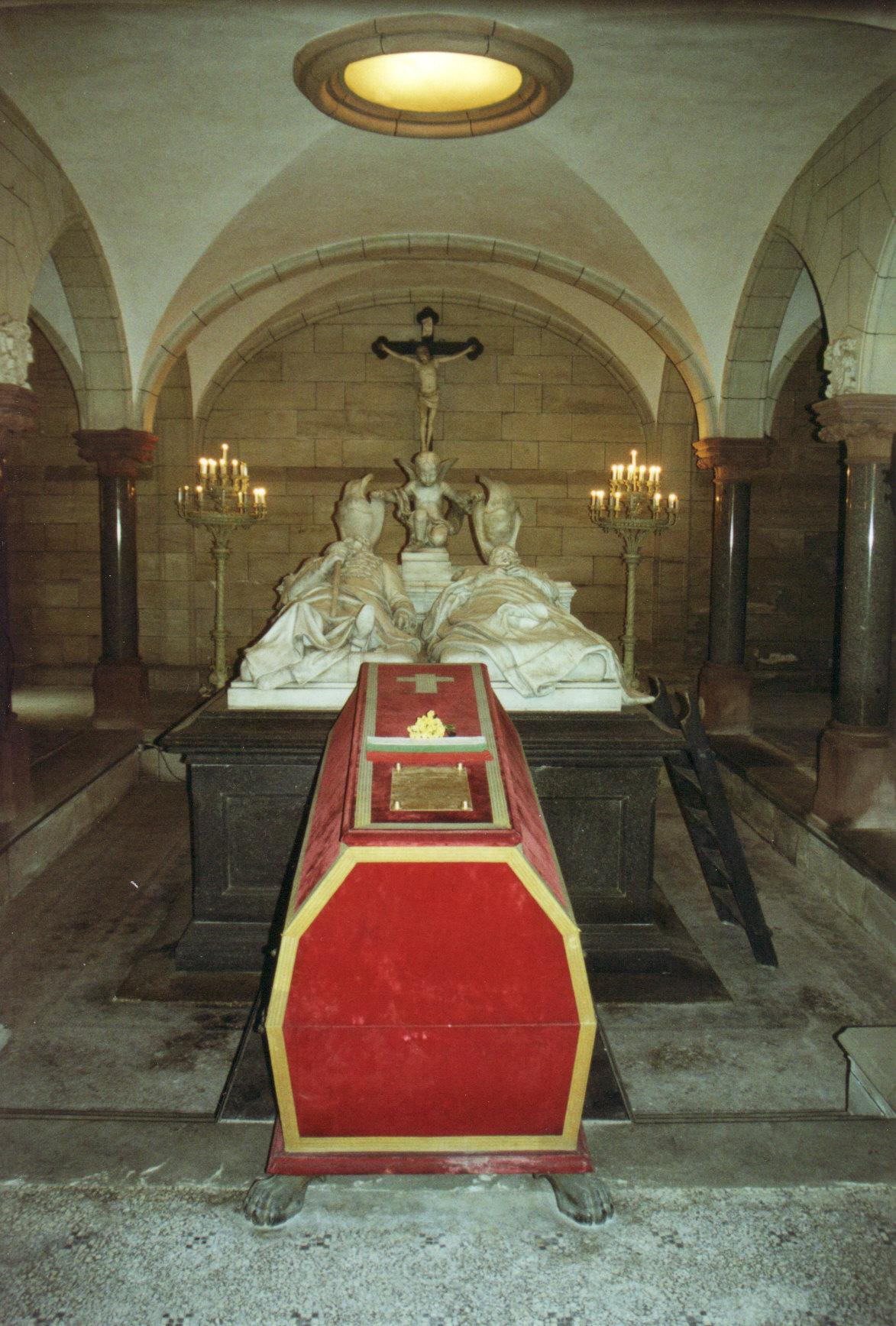 Tomb of Tsar Ferdinand I of Bulgaria (in front of parents), and gisants of Prince August of Saxe-Coburg and Gotha (1818-1881) and his wife Princess Clémentine of Orléans (1817-1907)